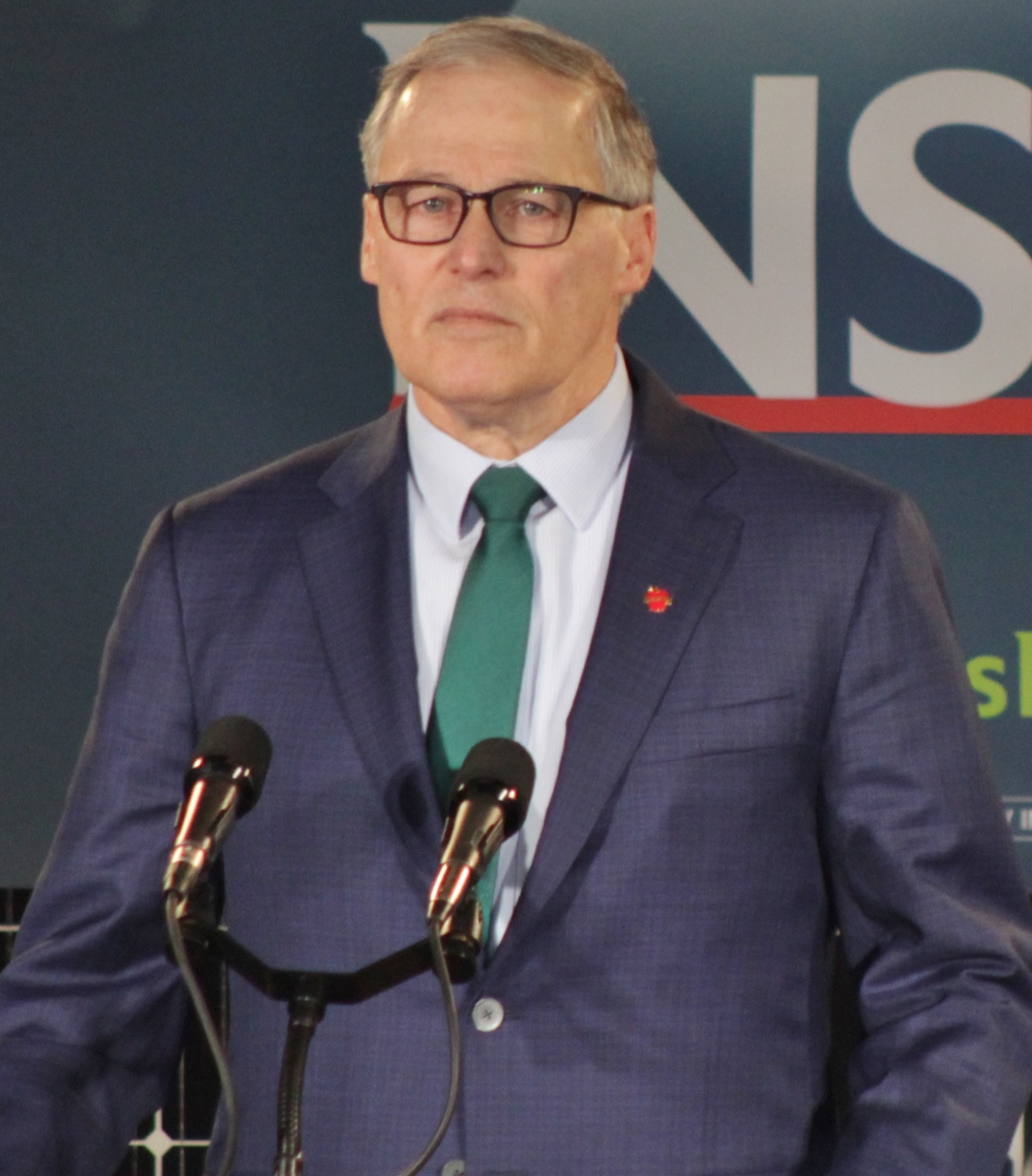 Jay Inslee, Governor of Washington, announces his presidential campaign for the 2020 election. The announcement was held at a solar panel warehouse in the Mount Baker neighborhood of Seattle, Washington.